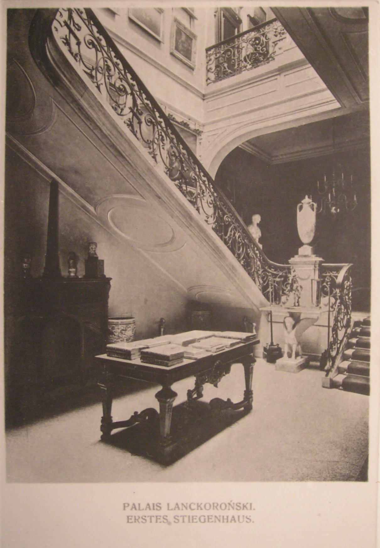 Image of the Palais Lanckoroński in Vienna, which was the private residence of Count Lanckoroński and his vast art collection, which was open to the public. The image is part of a post-card series that were made specifically for the building and its collection.